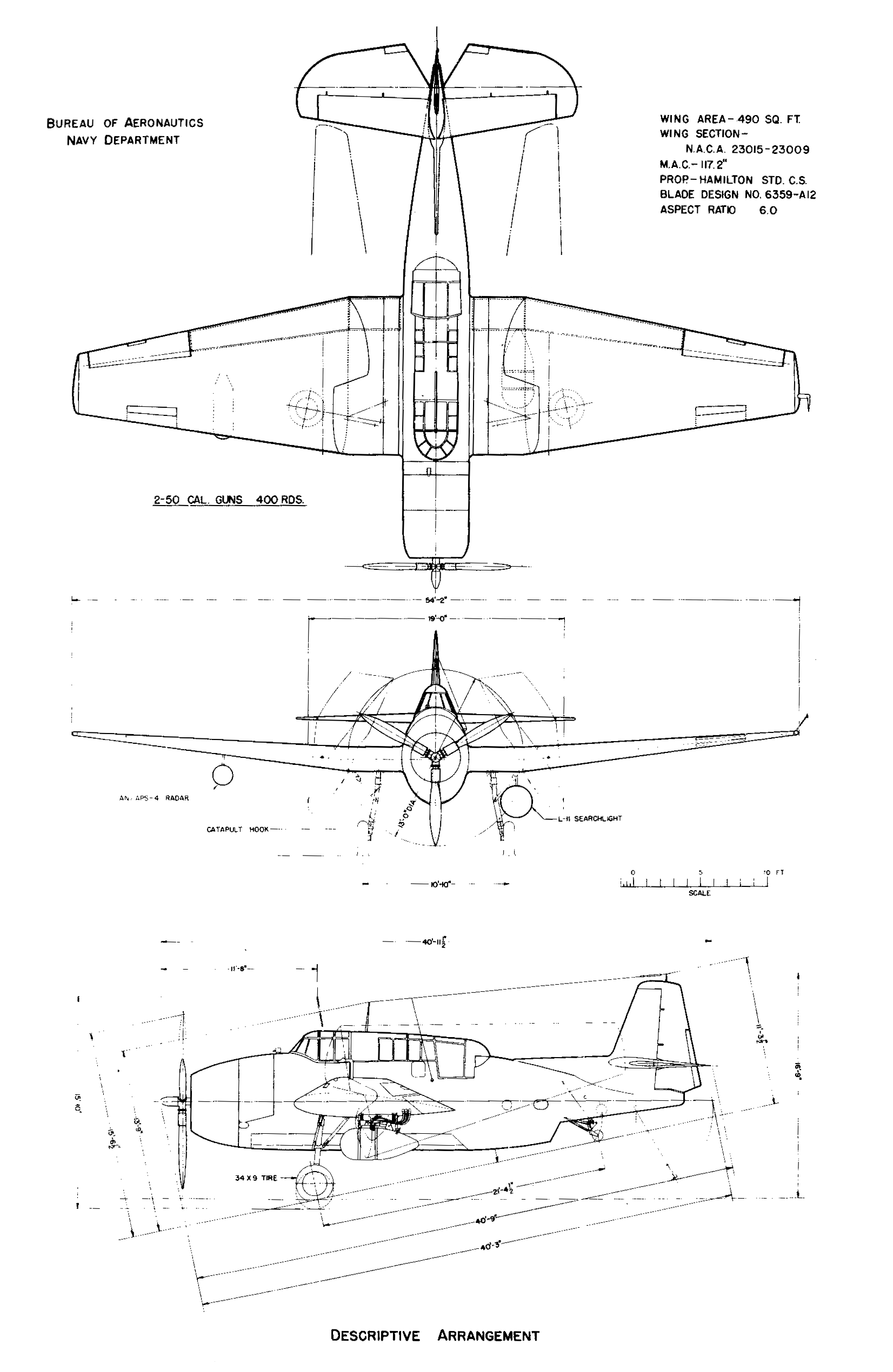 3-side-view of a Grumman TBM-3S Avenger. The TBM-3S was an anti-submarine conversion of the TBM-3 torpedo bomber used in the Second World War.